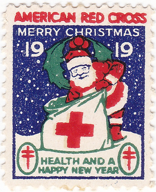 1919-2 Christmas Seal